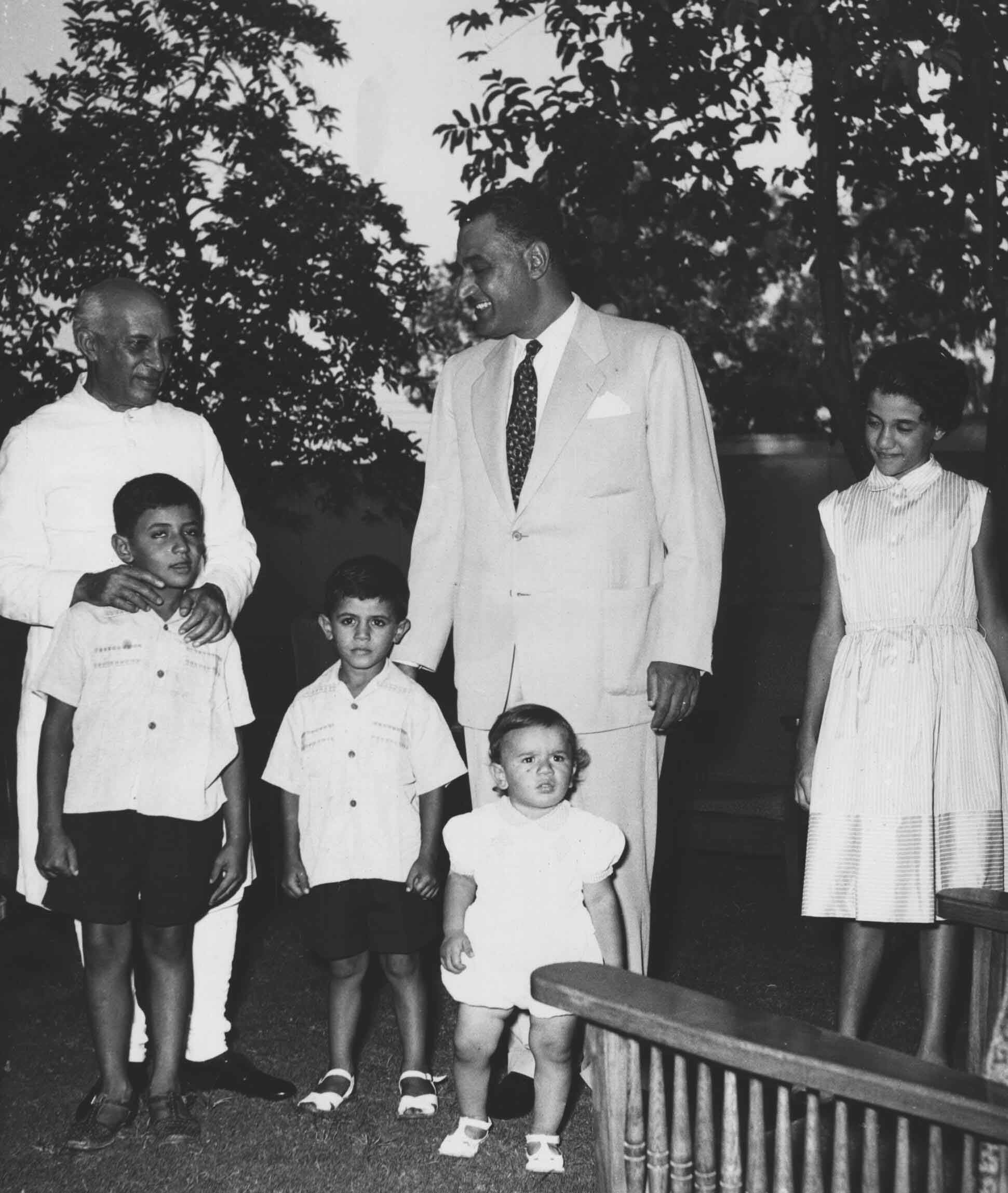 Nasser and his children with Indian Prime Minister Jawaharlal Nehru